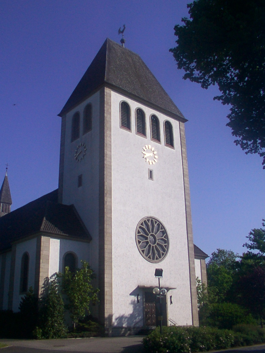 Delbrück: Catholic Church St. Joseph in Ostenland